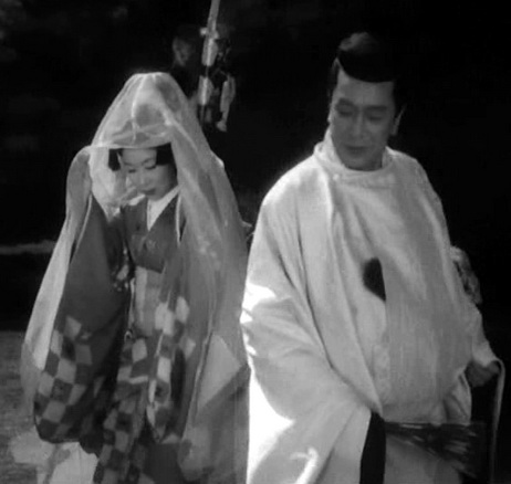 Screenshot from The Life of Oharu, 1952 film. Kinuyo Tanaka as Oharu.